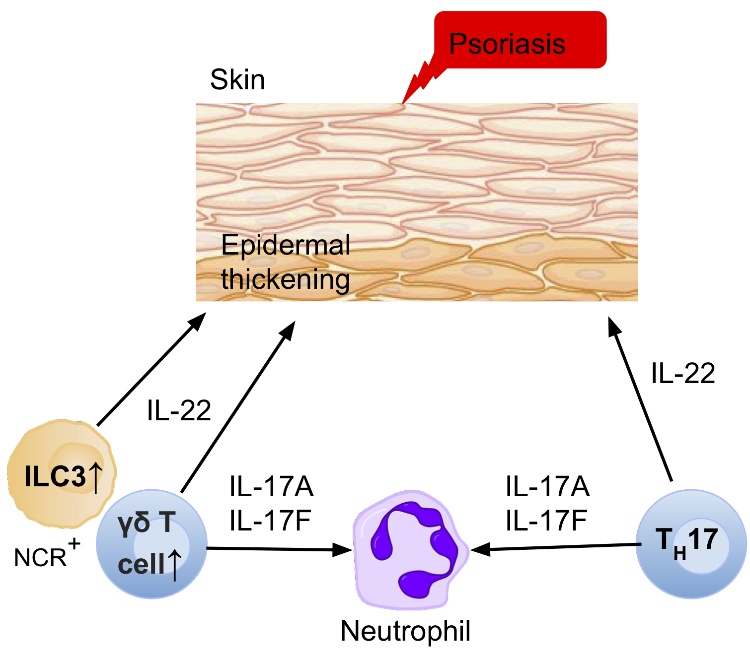 ILCs involved in the pathophysiology of psoriasis.